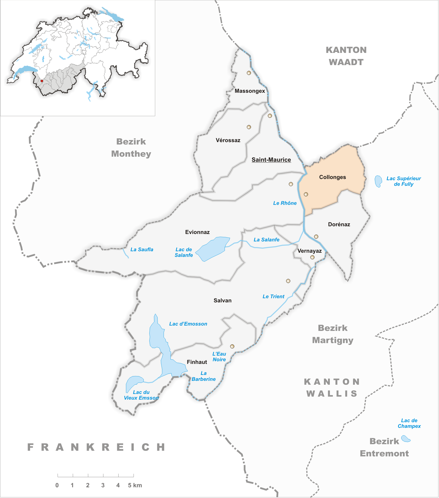 Municipality Collonges